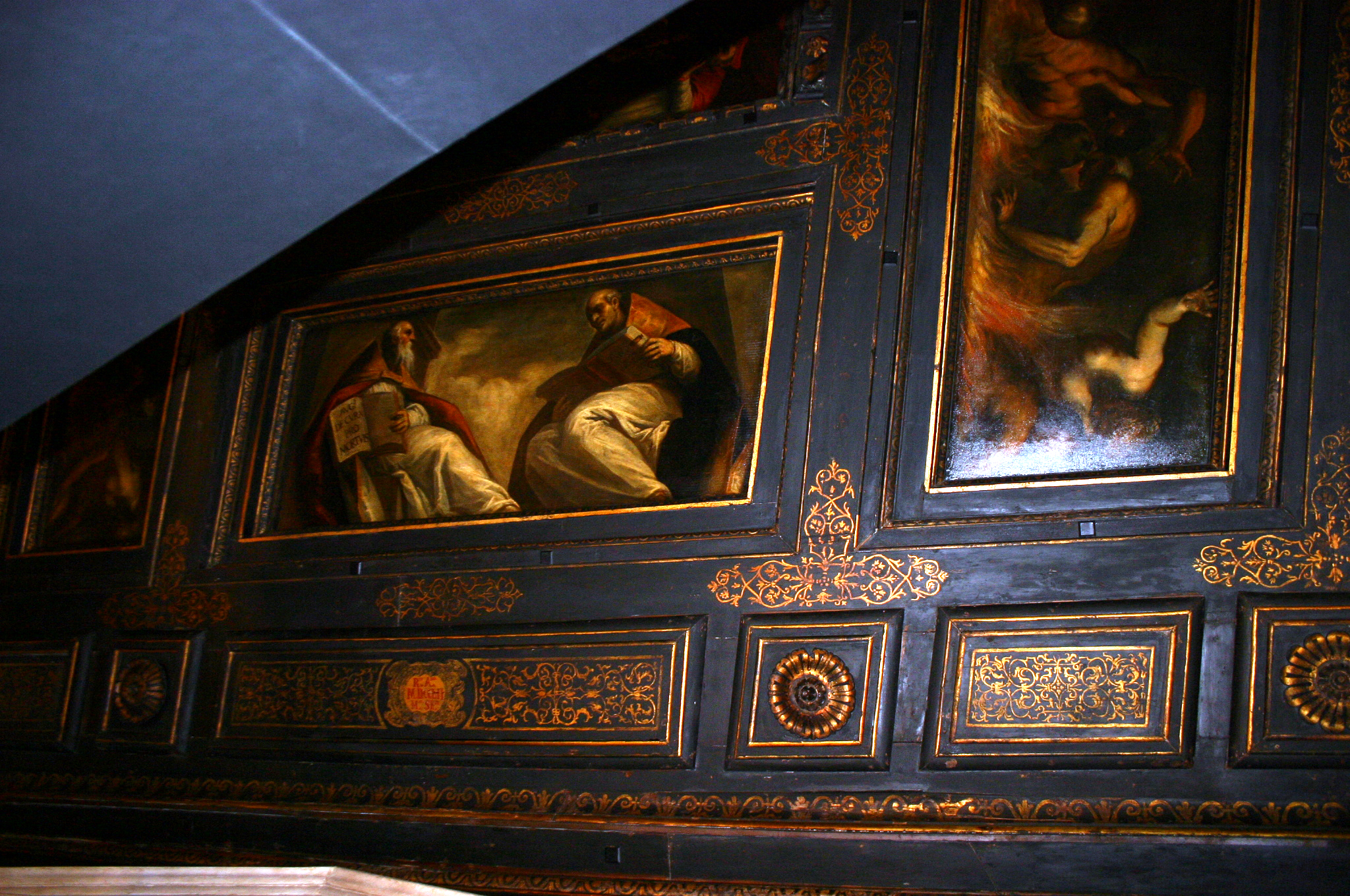 Venice, Scola di san Fantin, Aula Magna. Palma il Giovane, Doctors of the Church [1600]. Picture by Giovanni Dall'Orto, August 12, 2007.